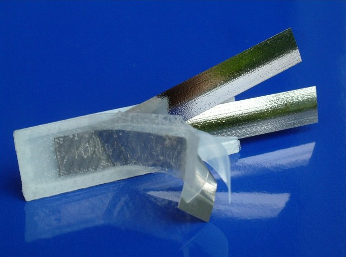 Opened magnetoacoustic Tag. Size: about 4x1x0.1 cm^3 Photographer: Anton